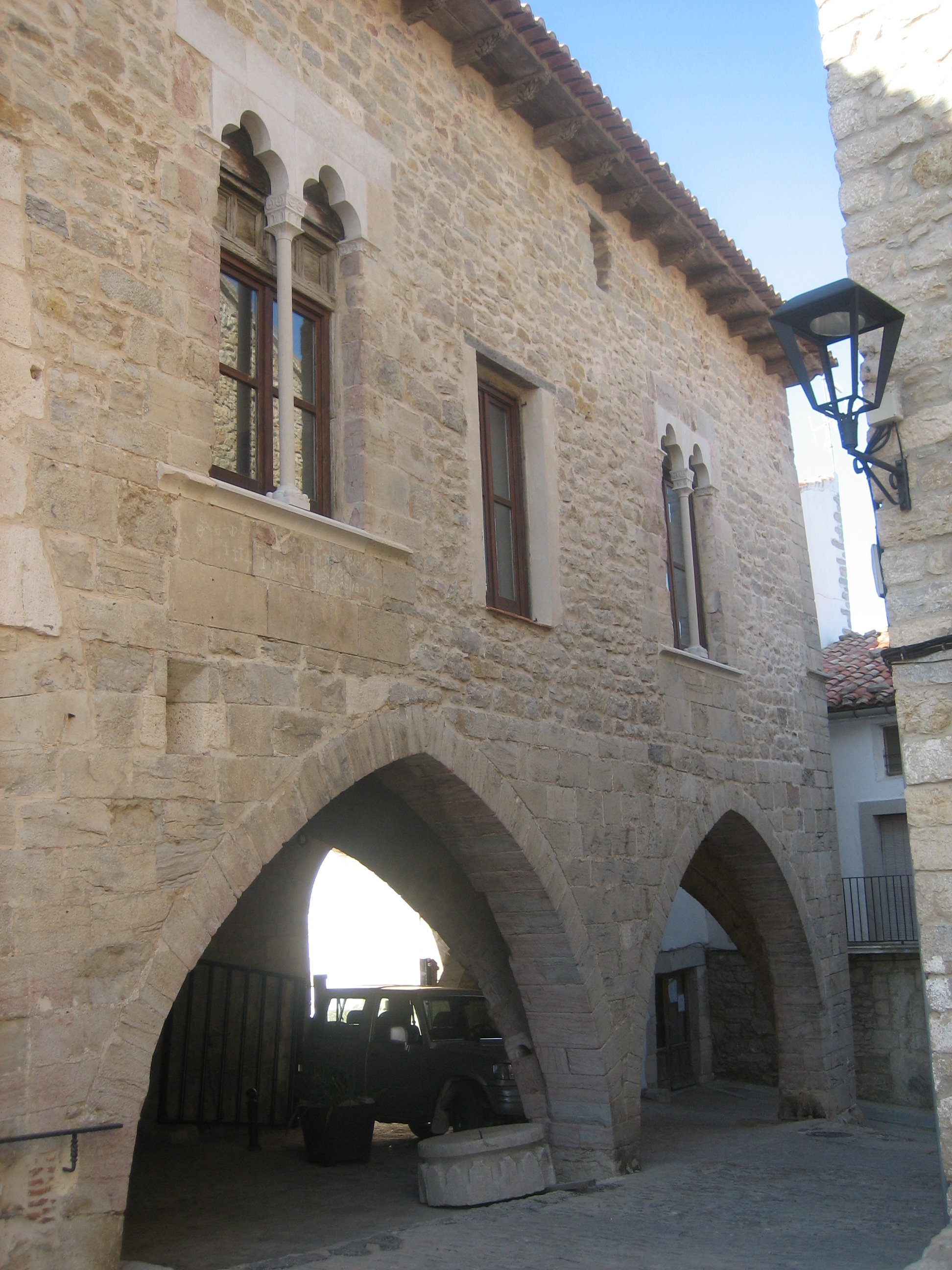 Town hall of Ares del Maestre (Spain)